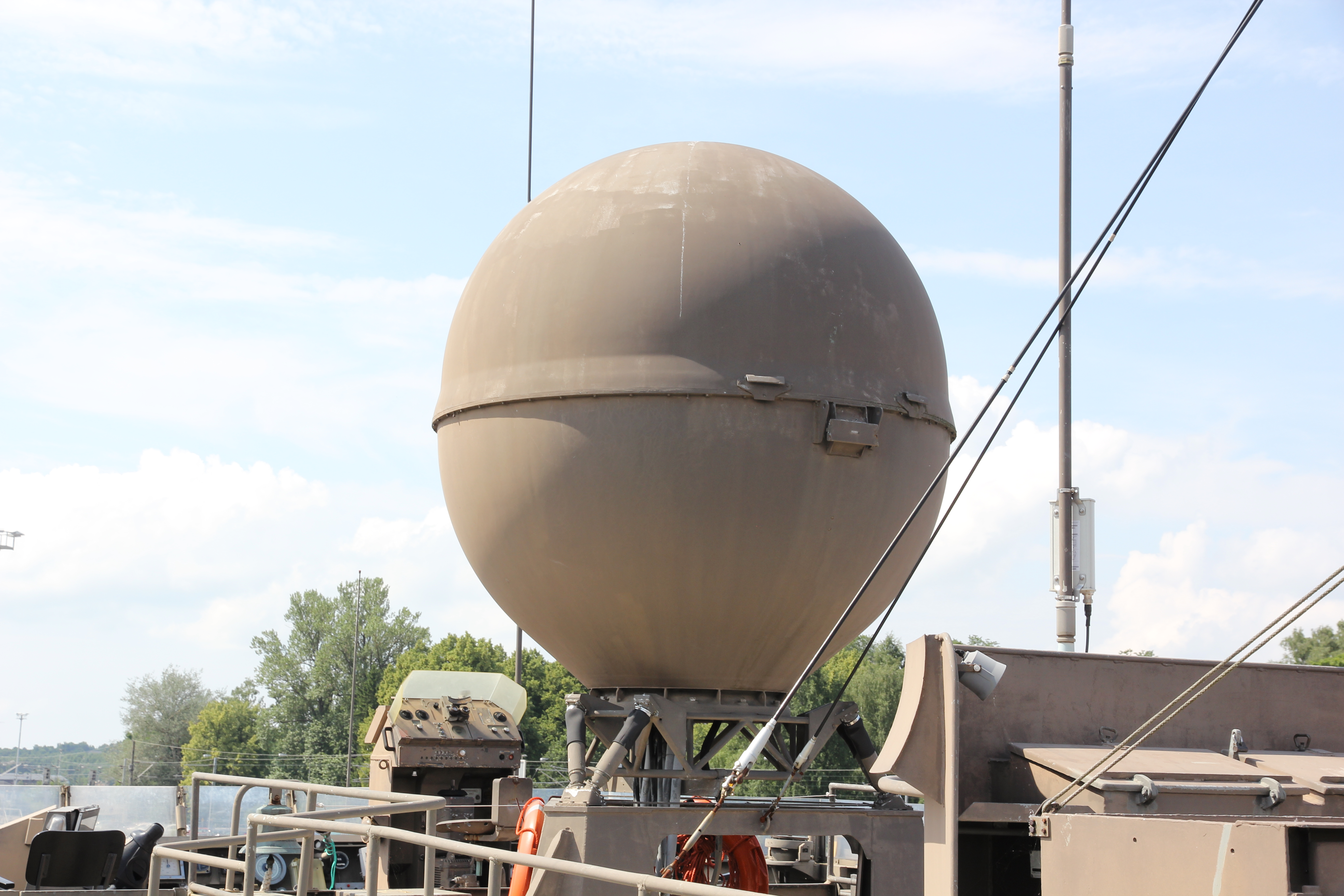 Signaal M22 fire control radar "egg" of the Finnish gunboat Karjala in Forum Marinum. Photographed from Keihässalmi.